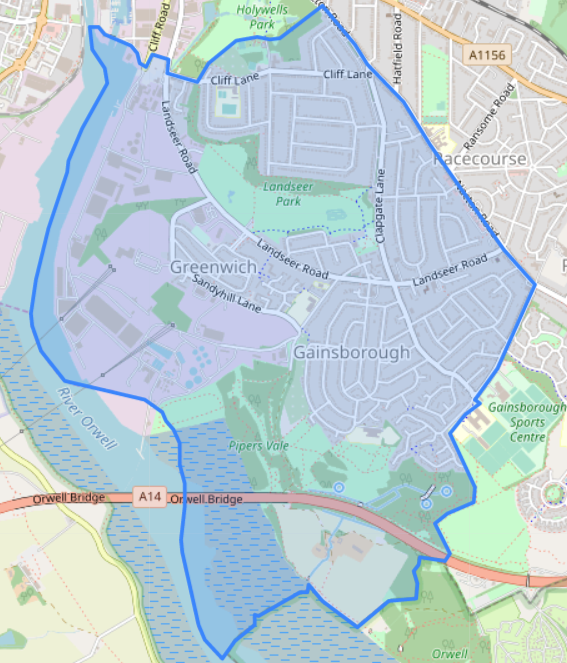 Open Street Map with area shaded blue for Gainsborough Electoral Division, Suffolk This map of South East Ipswich was created from OpenStreetMap project data, collected by the community. This map may be incomplete, and may contain errors. Don't rely solely on it for navigation.